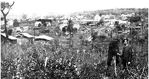 Partial view of São José do Rio Preto, São Paulo, Brazil, in 1909.